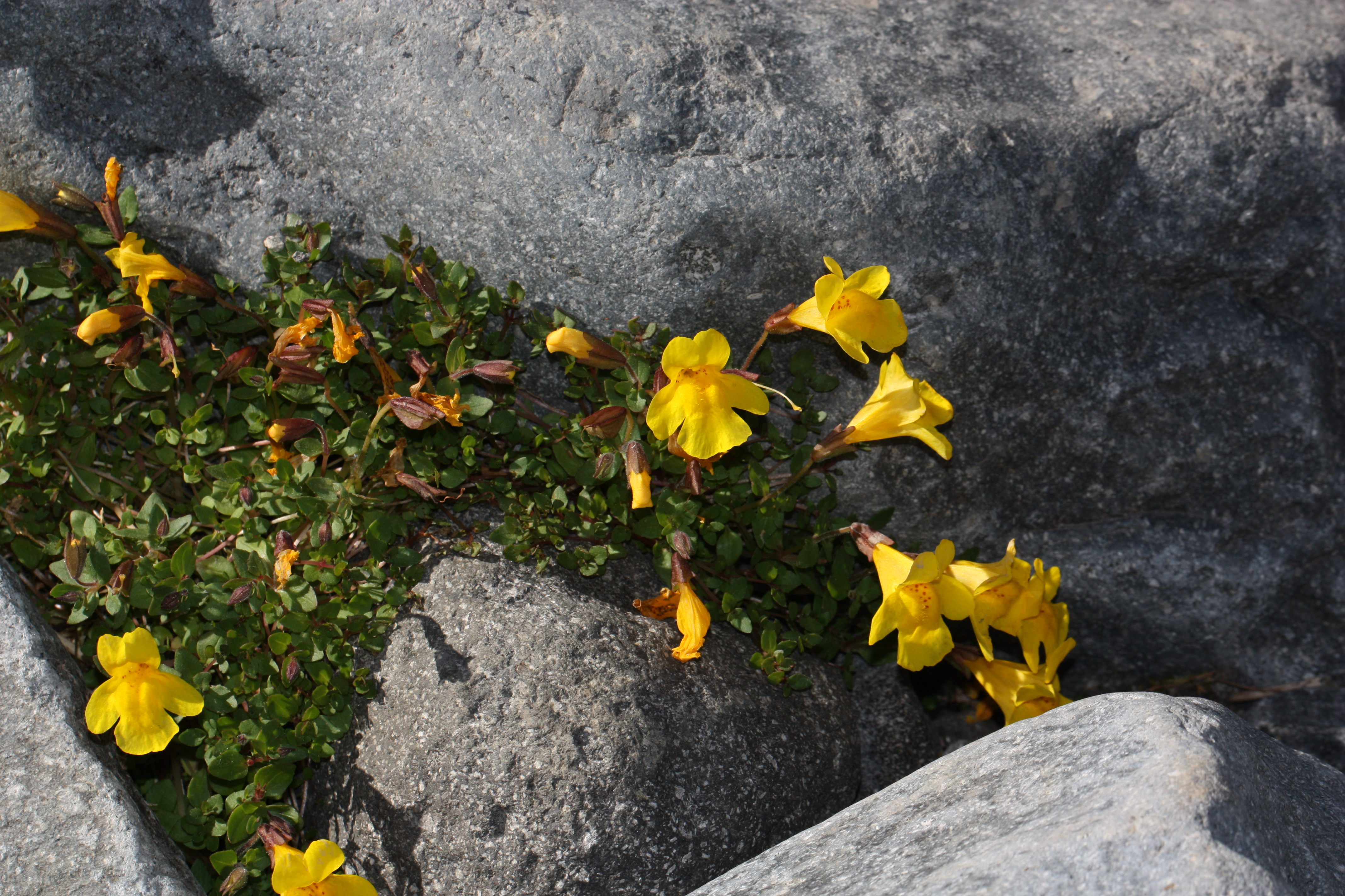 Large Mountain Monkey-flower